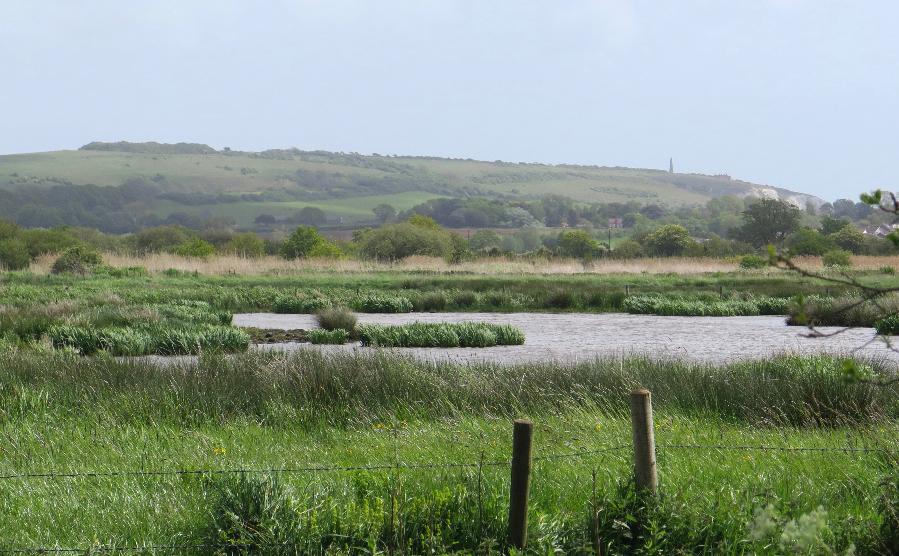 The Reserve is owned and managed by the Hampshire and Isle of Wight Wildlife Trust.